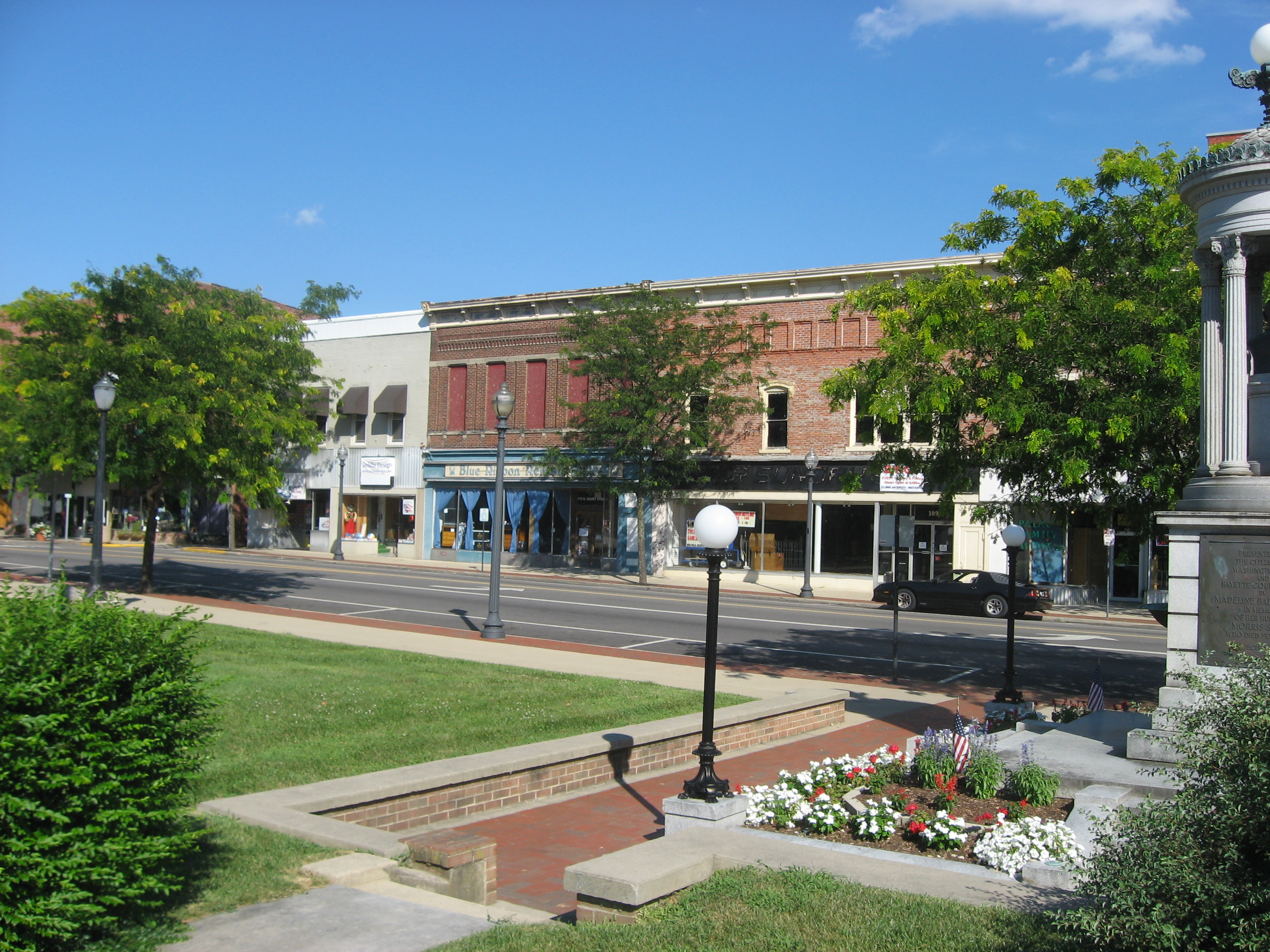 Buildings on the southern side of Court Street (U.S. Routes 22/62 and State Route 41) in downtown Washington Court House, Ohio, United States, across the street from the Fayette County Courthouse. This block is part of the Washington Court House Commercial Historic District, a historic district that is listed on the National Register of Historic Places.